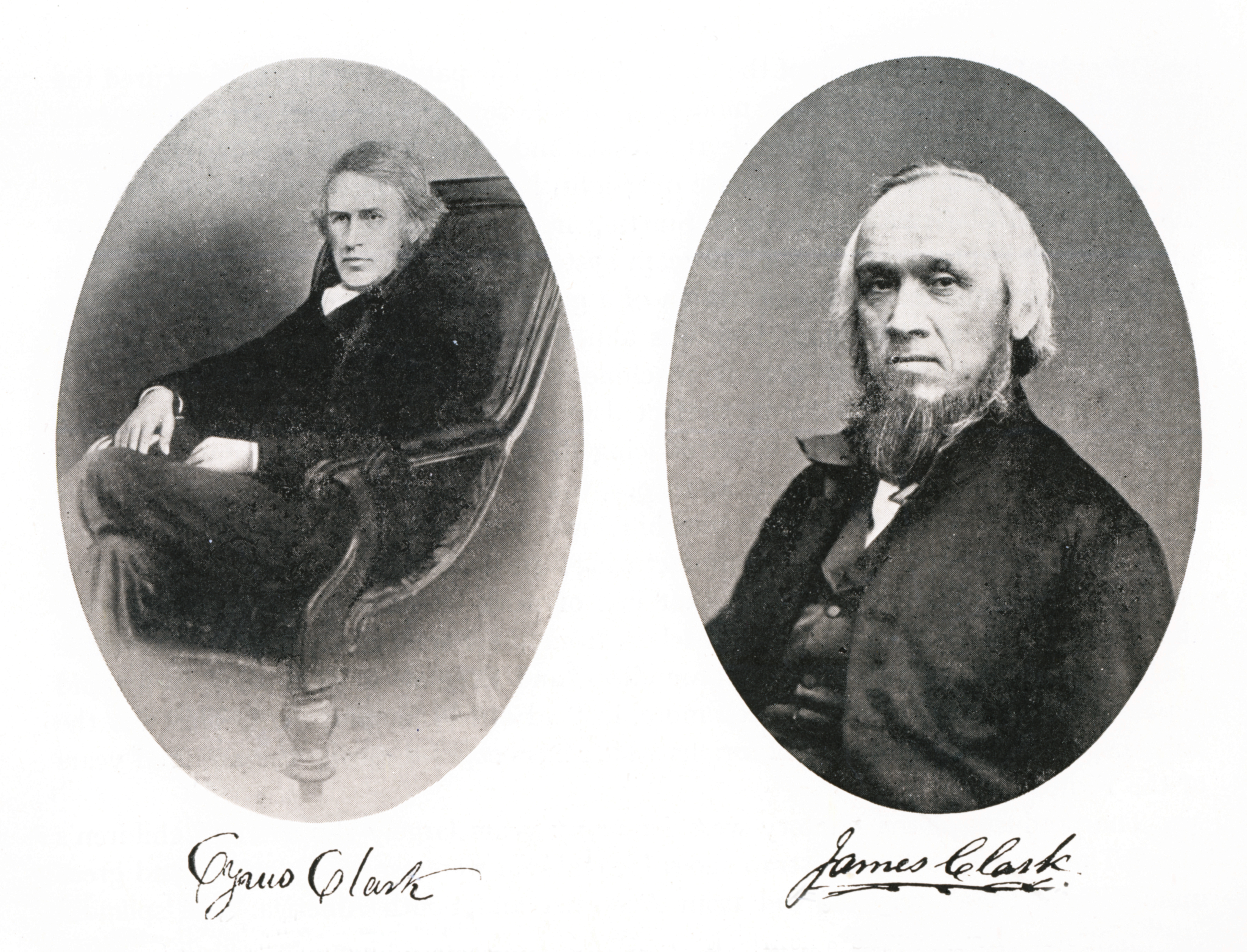 Black and white photographs of Cyrus and James Clark, the founders of C & J Clark International, along with their signatures